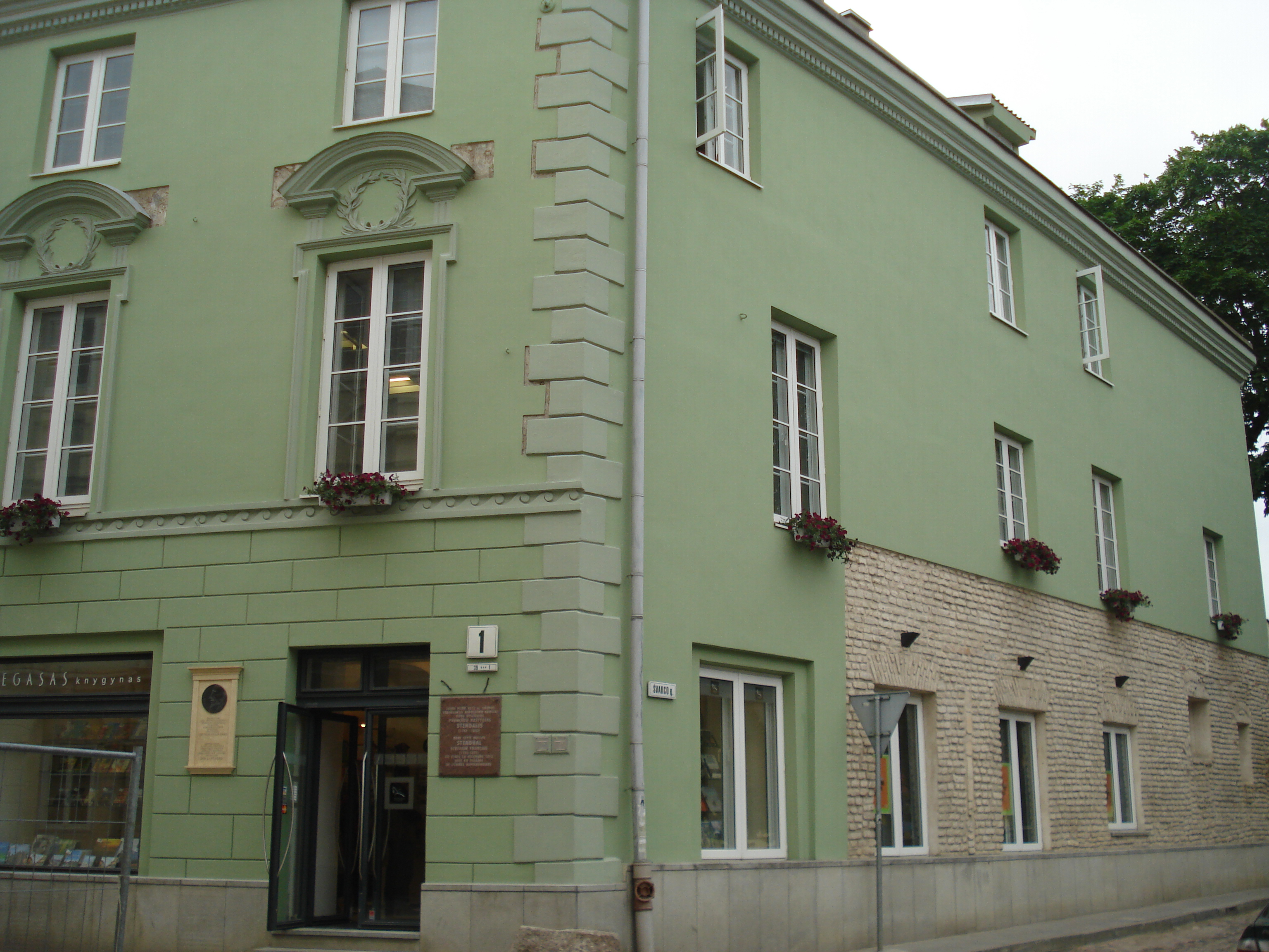 House of Frank in Vilnius (Didžioji g.). Reconstruction by Michal Schulz (Mykolas Angelas Šulcas; (1769–1812)